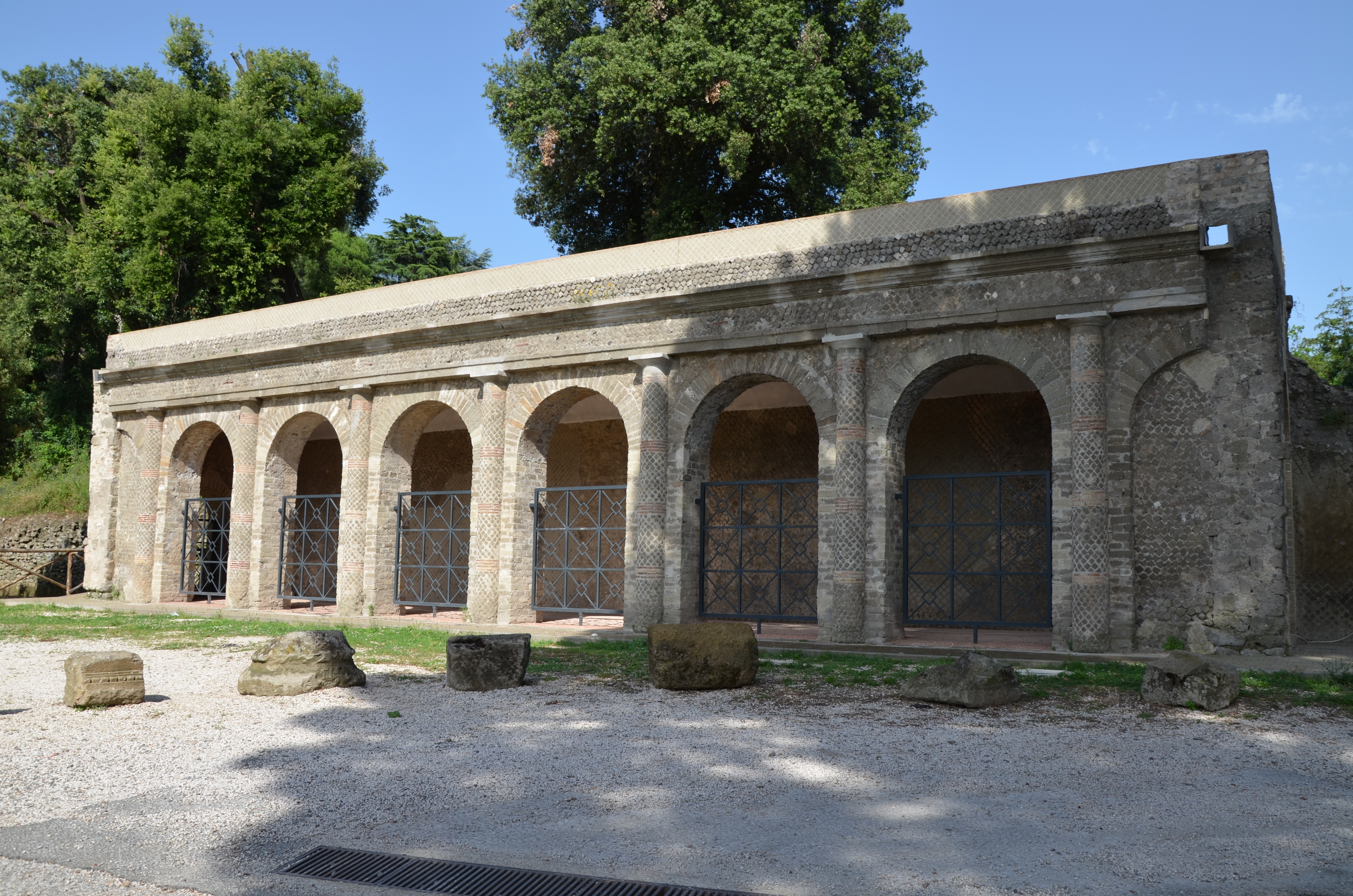 The portico of the Sanctuary of Juno Sospita at Lanuvium, Lanuvio, Italy